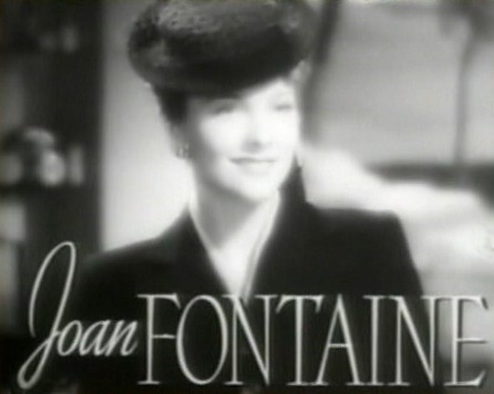 Cropped screenshot of Joan Fontaine from the trailer for the film The Women.